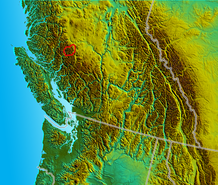 adapted from img in Wikimedia Commons :Image:708px-South_BC-NW_USA-relief.png